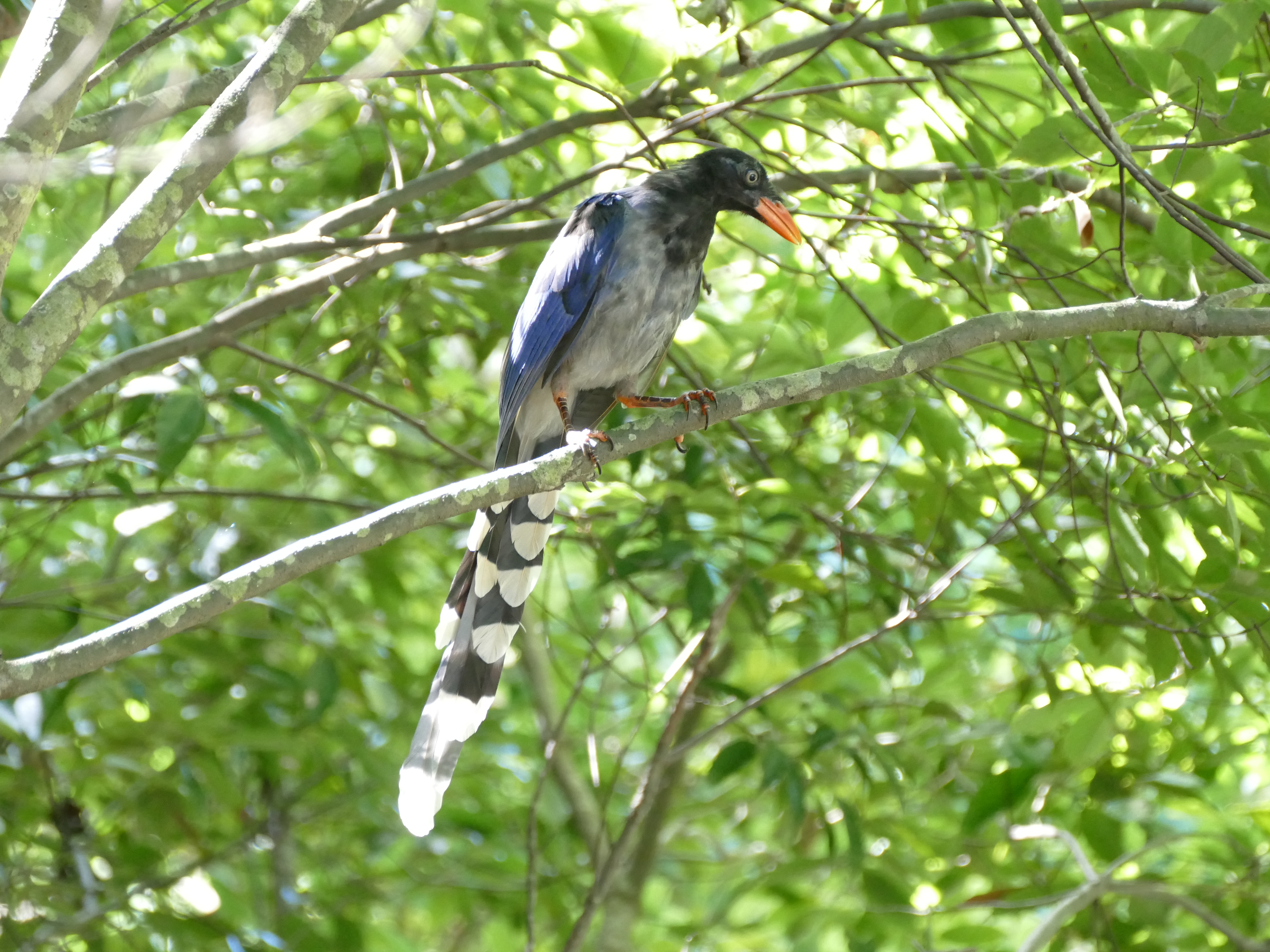 A juvenile Taiwan Blue Magpie (Urocissa caerulea) in Taipei, Taiwan